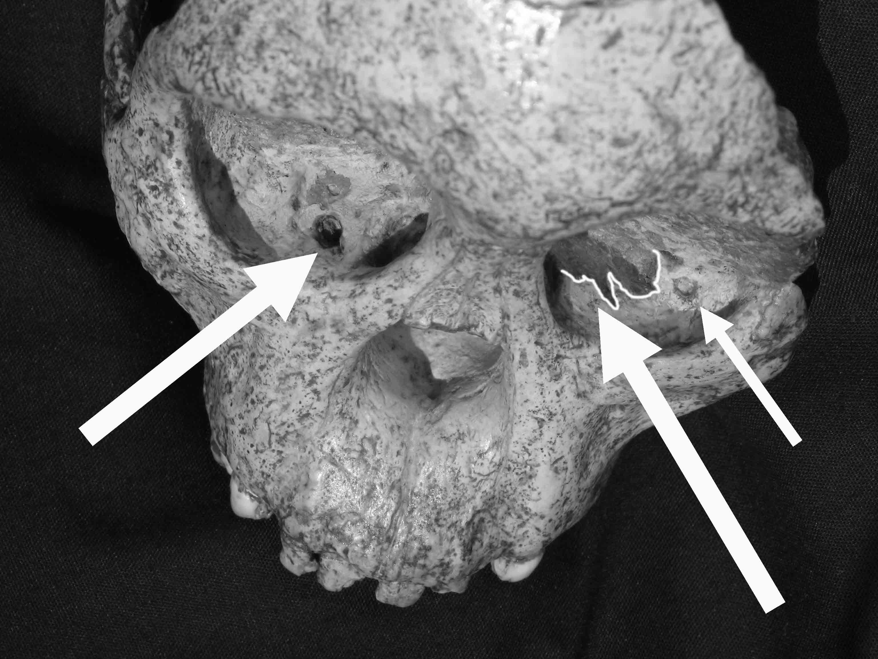 Taung child skull with eagle damage in orbits